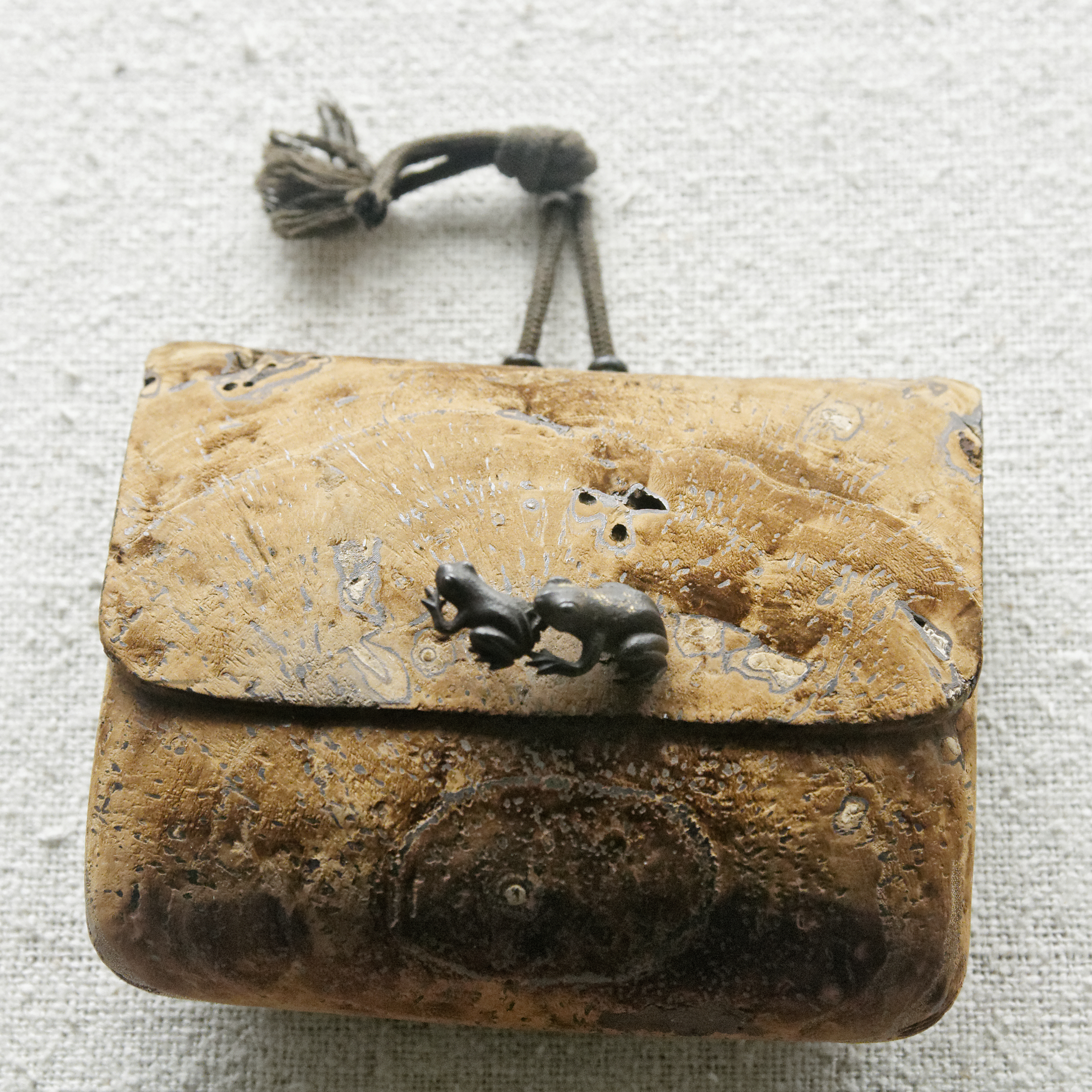 Japanese tobacco-pouch.